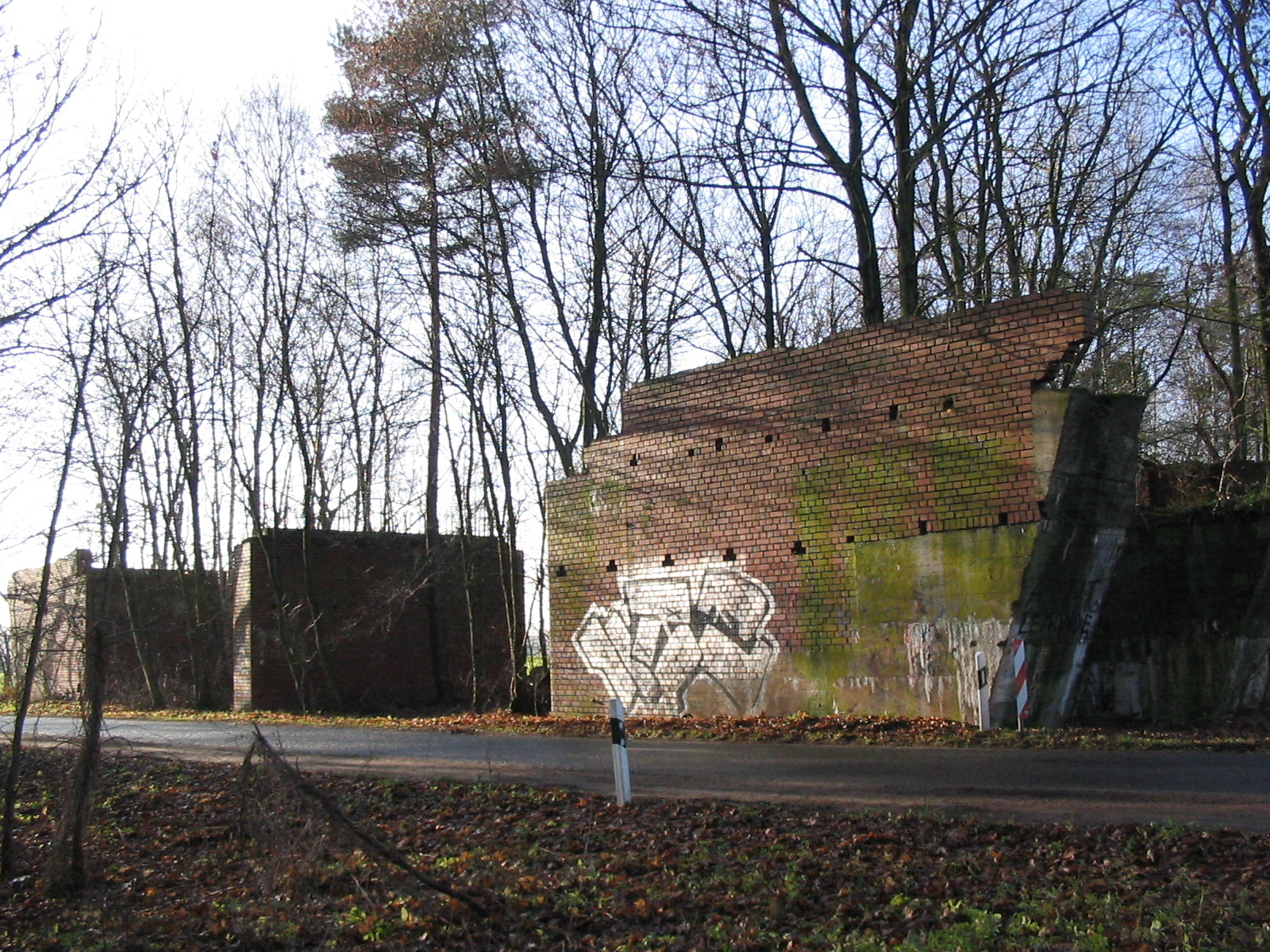 unused motorway bridge on the former planned route of the Reichsautobahn Hamburg-Berlin near Hagenow (Germany) from the 1930s.